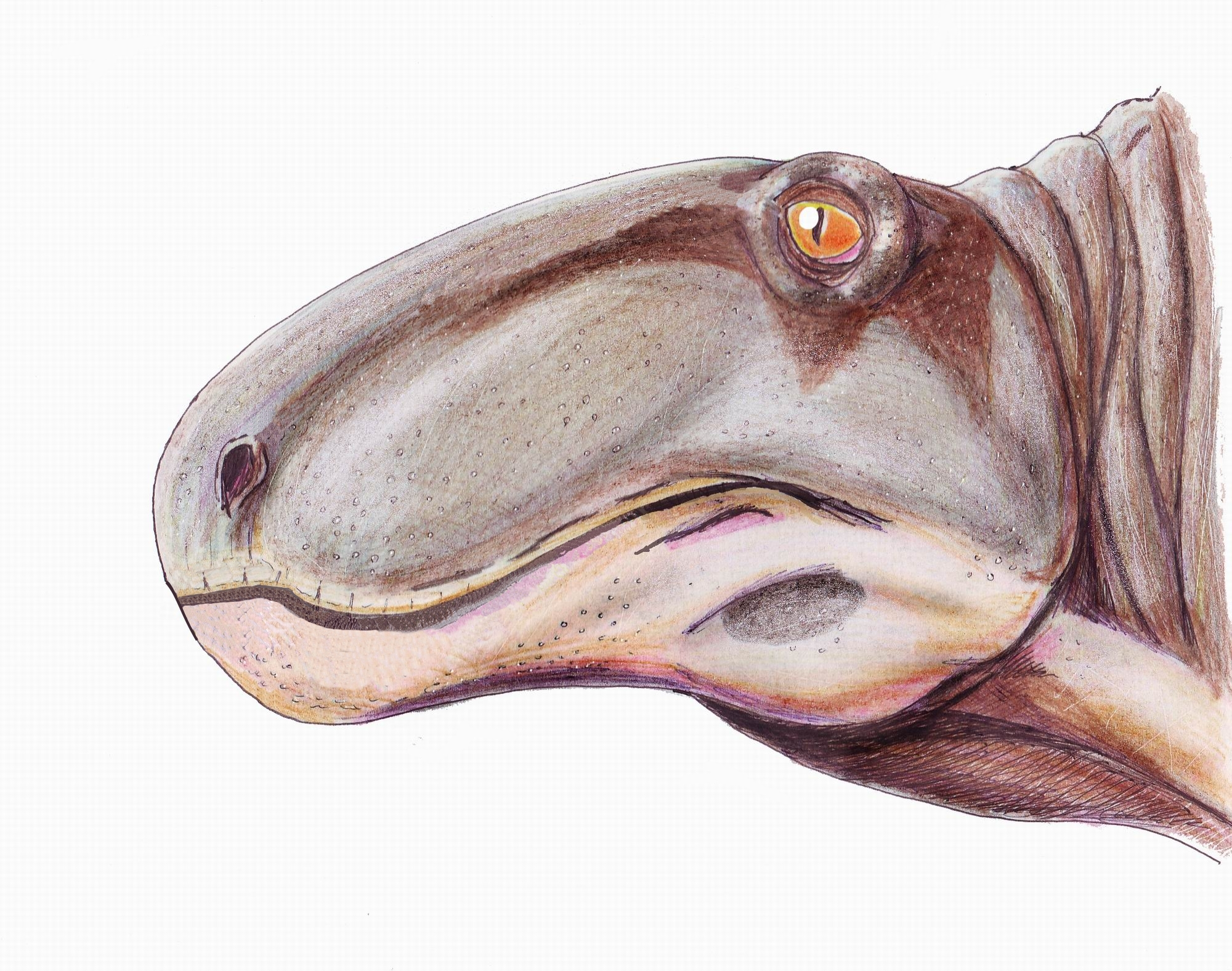 Speculative reconstruction of head of Steppesaurus gurlei